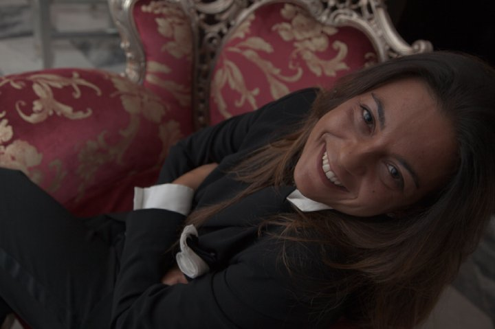 Alessandra Flora